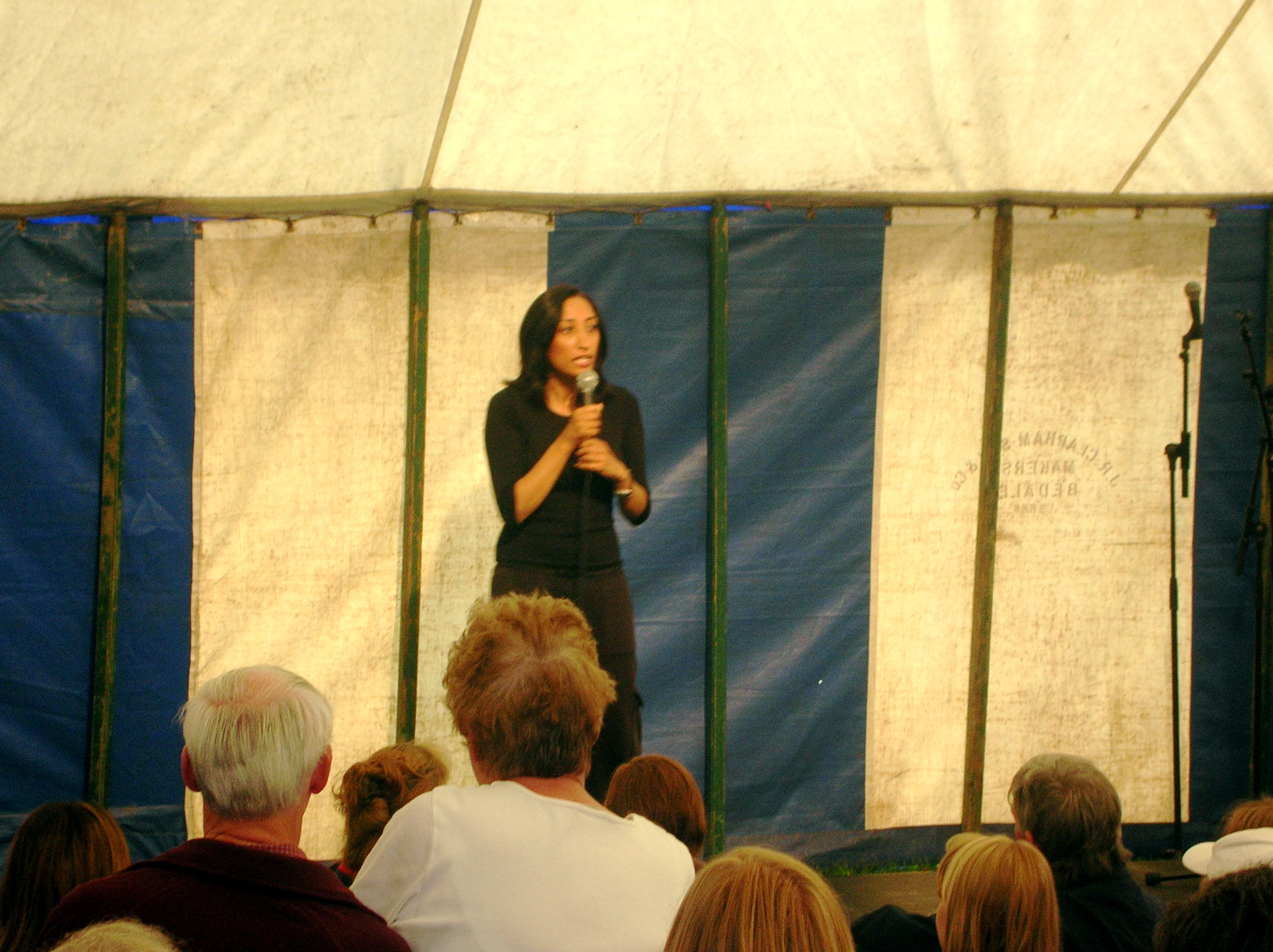 The Shazia Mirza performing in Edinburgh. Image taken by Maccoinnich August 2005